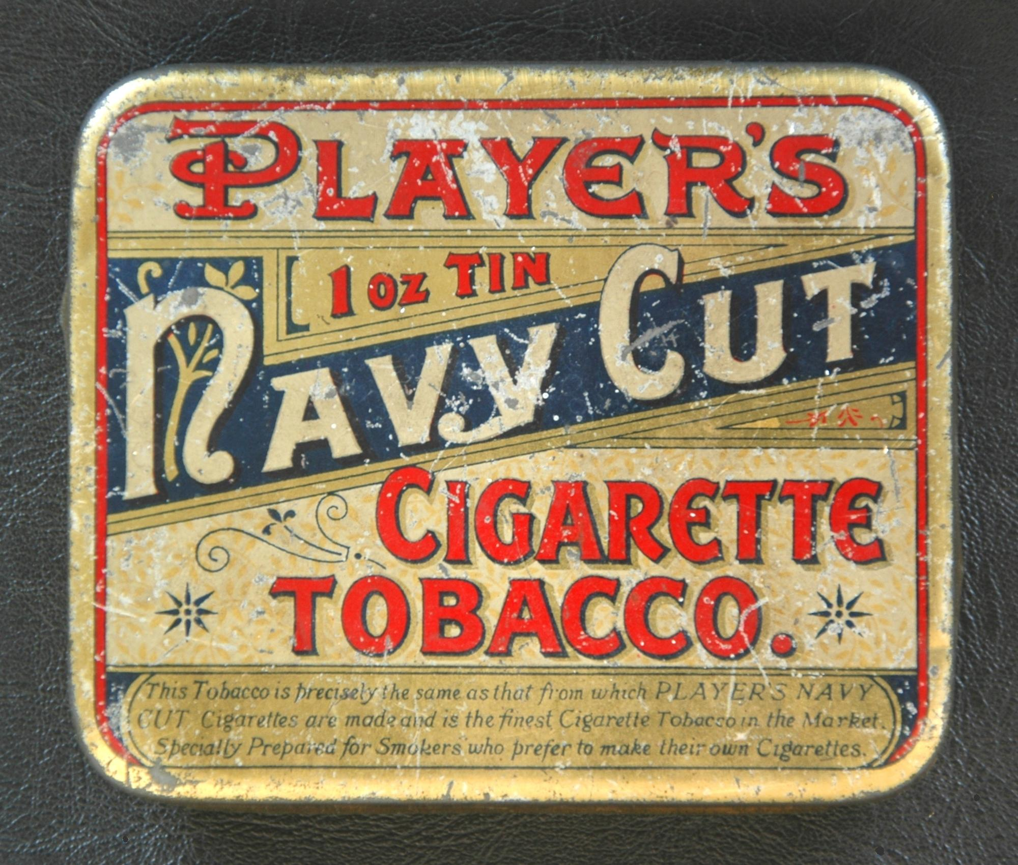 Enamelled metal box for 1 ounce of tobacco: John Player and Sons, Nottingham, England